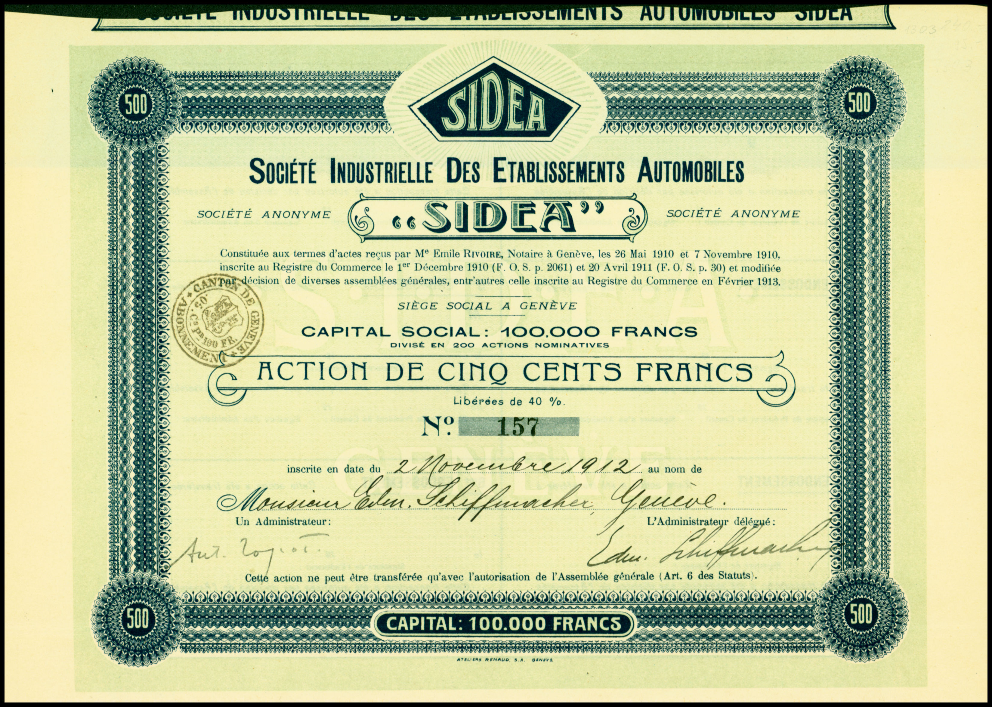 Share of the Société Industrielle des Etablissements Automobiles "Sidéa", issued 2. November 1912